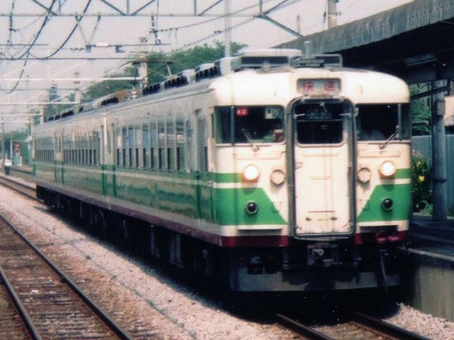 JR East 169 series EMU on a rapid service at Shinmachi Station on the Takasaki Line